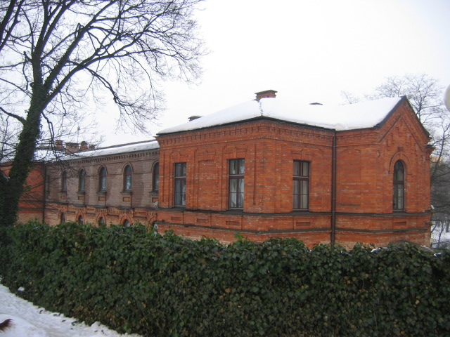 Warsaw, Smolna Street 6